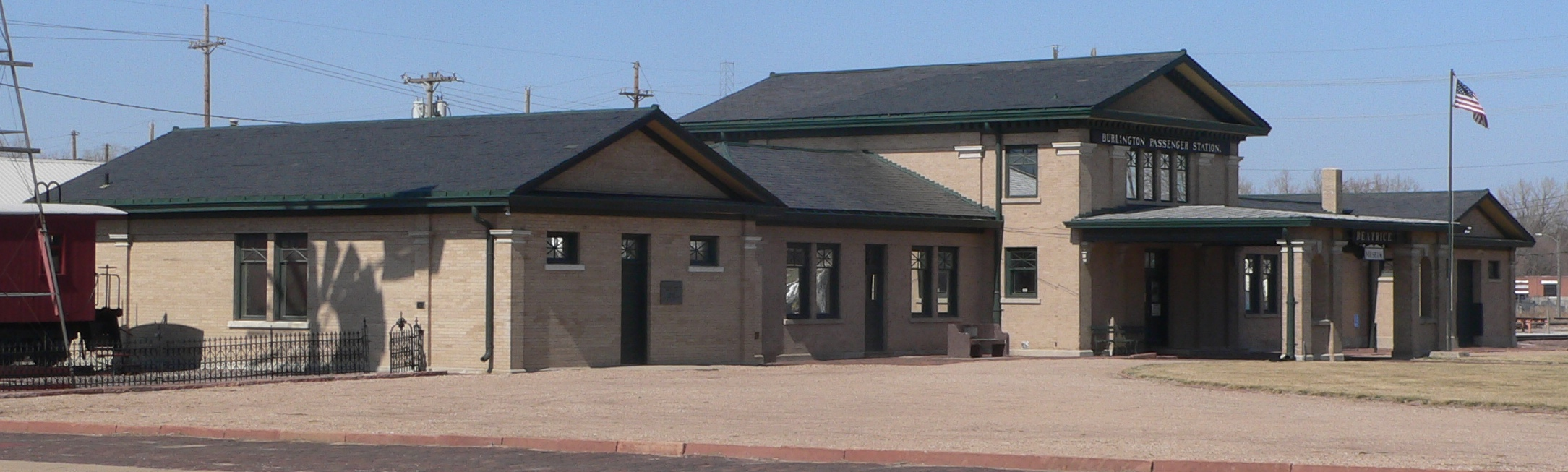 Former Burlington Northern depot, located at 101 N. 2nd Street in Beatrice, Nebraska; seen from the southeast. The building now houses the Gage County Historical Society museum.